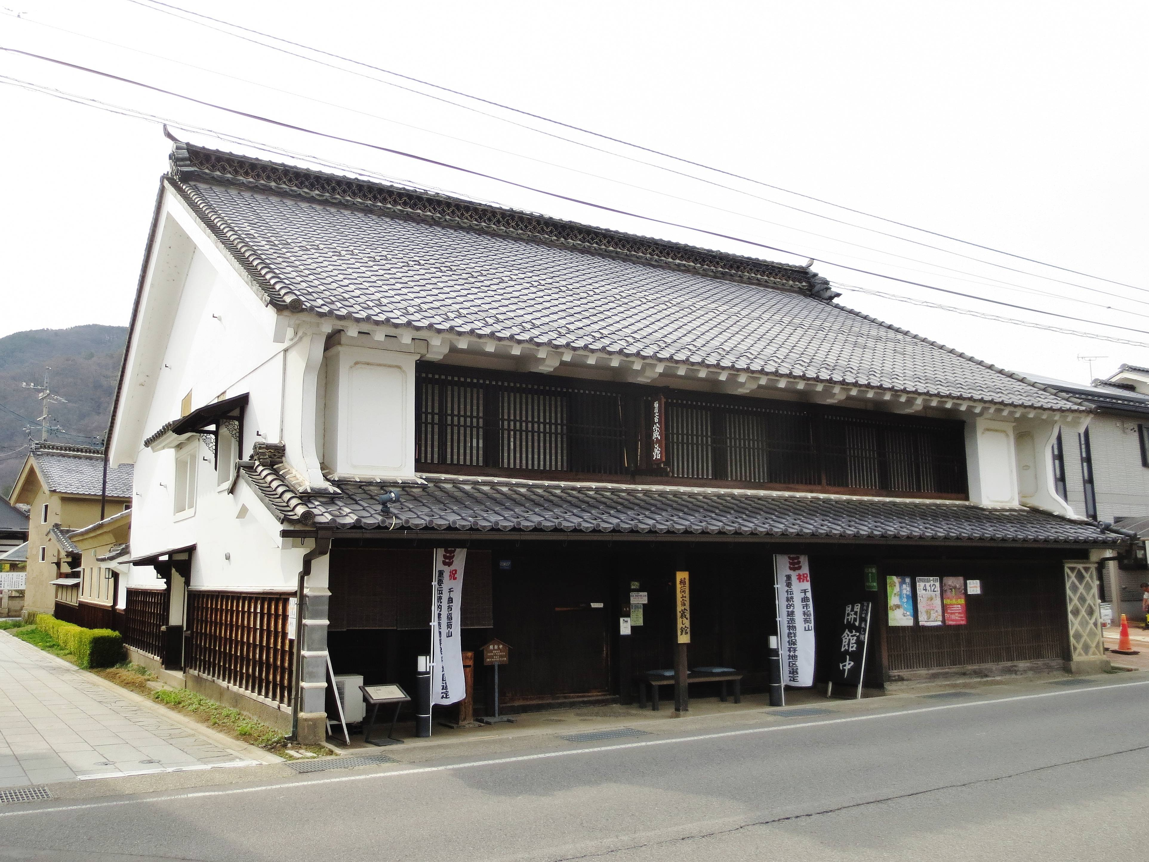 Inariyama-juku Kurashikan.